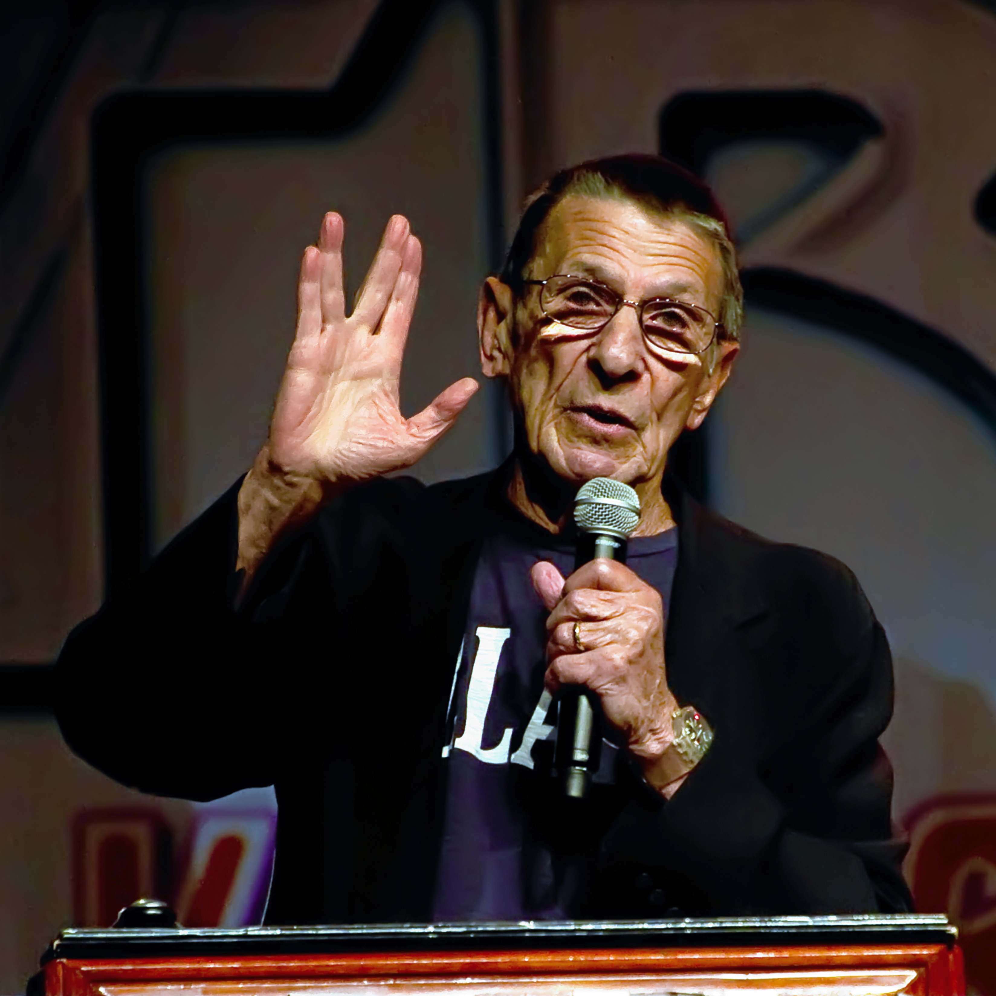 Leonard Nimoy (Spock) at the Las Vegas Star Trek Convention 2011.